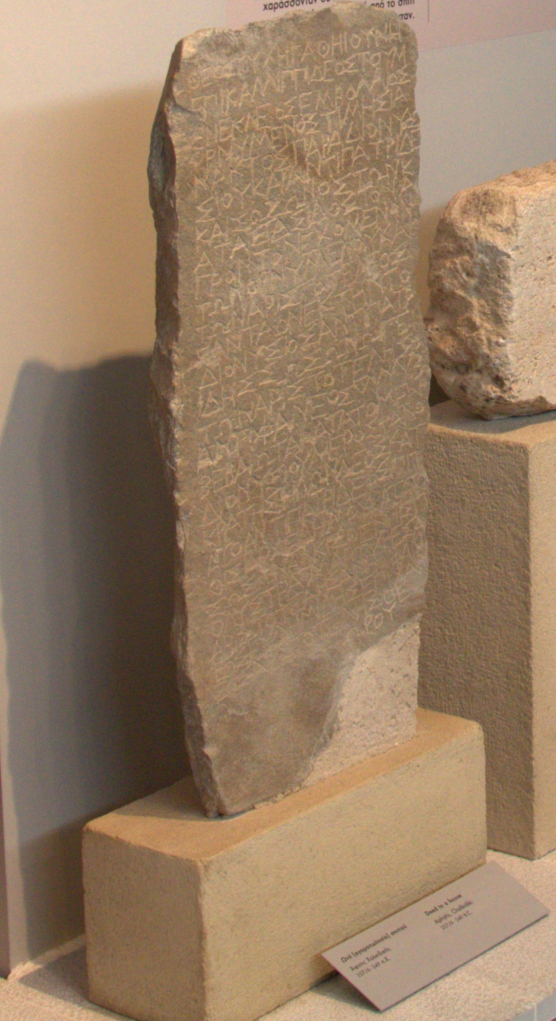 Detail cropped from Archaeological Museum of Thessaloniki, Greece (8724618785).jpg.